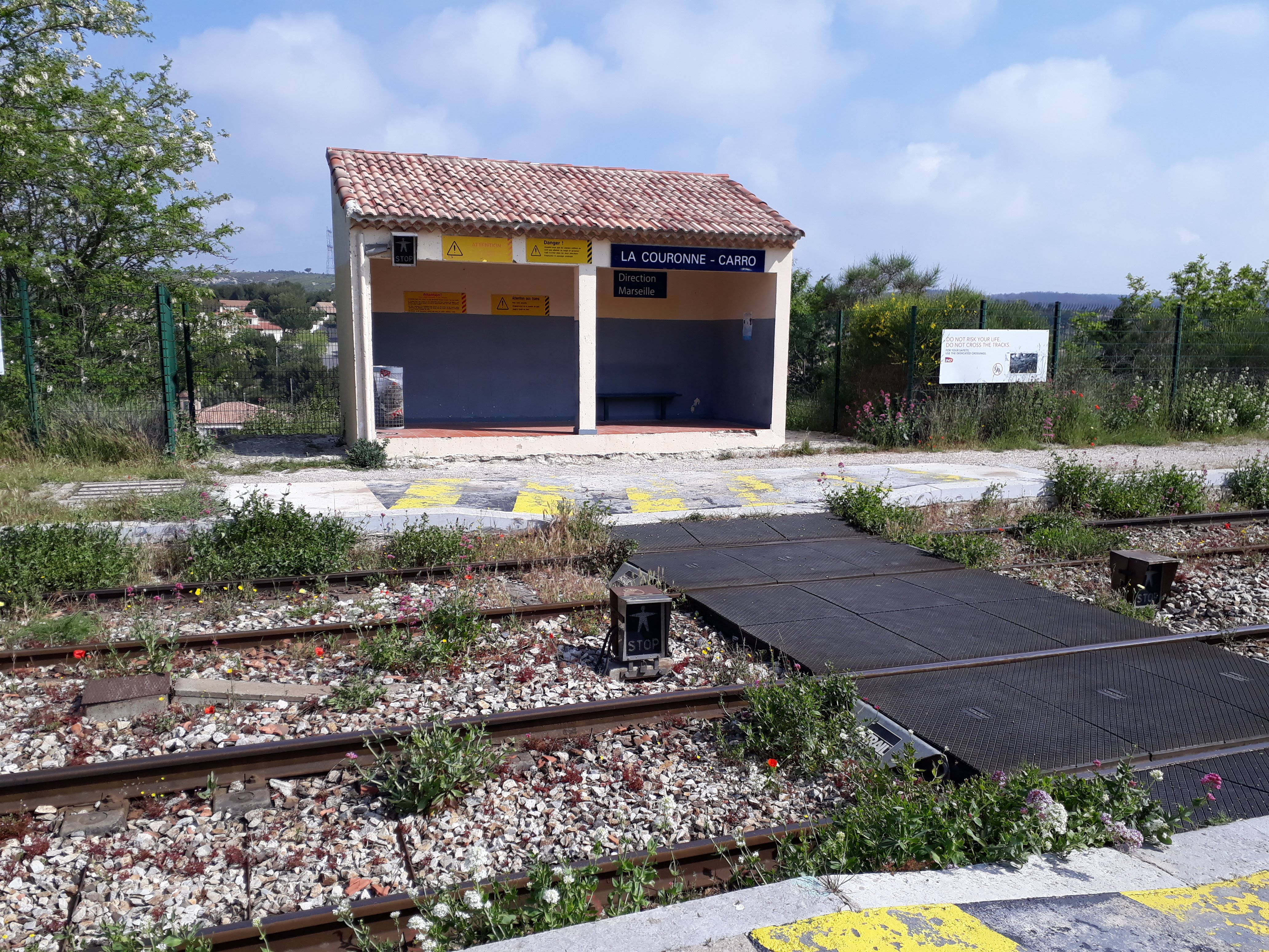 La Couronne Carro station, in the Marseille direction